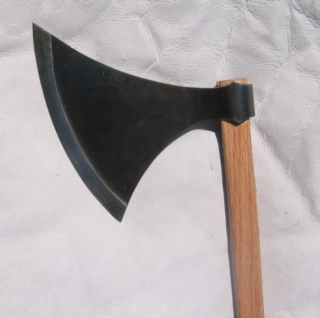 Replica Danish axe head, Petersen Type L or Type M, based on original from Tower of London. Forged by Bronze Lion.